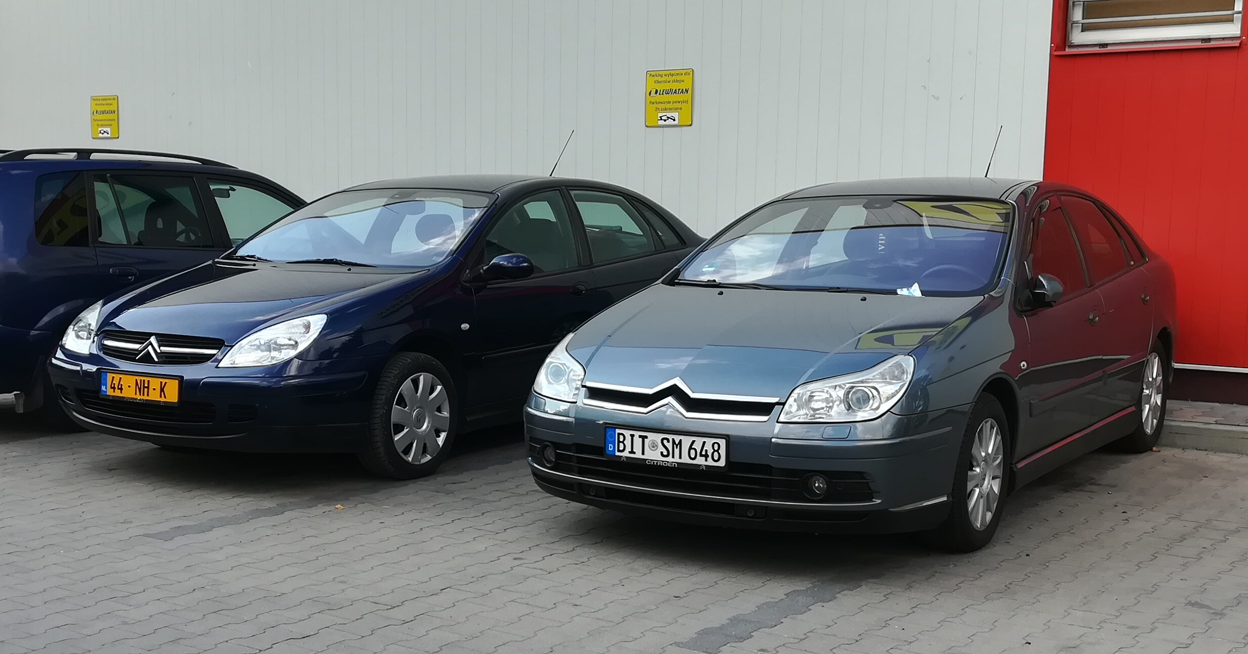 Two Citroen C5.